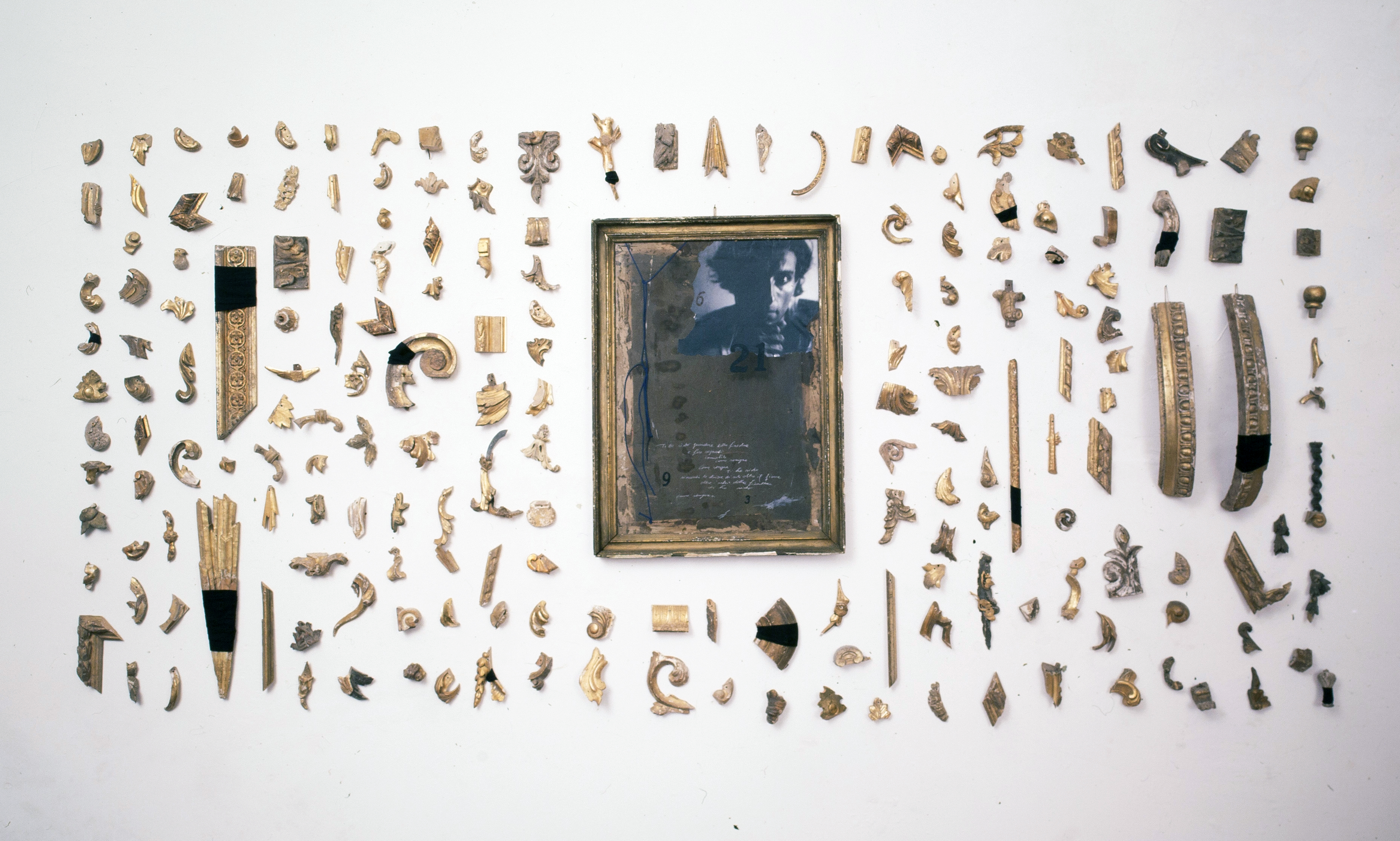 ph. Mark E. Smith